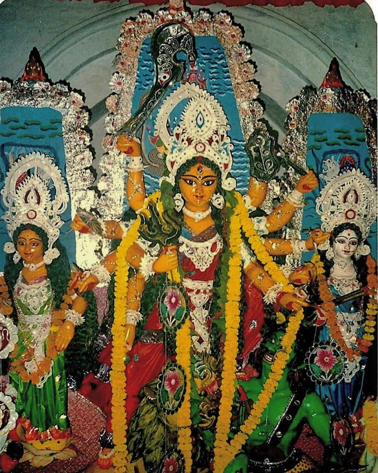 The Mahisamardini Durga with Laxmi, Saraswati, Kartike and Ganesha of Dutta Chowdhury family of Andul, 1988 CE.